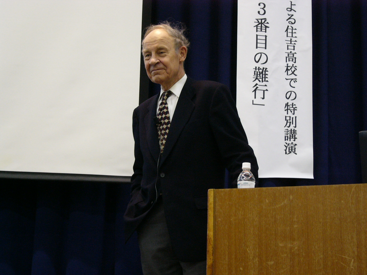 American chemist Dudley R. Herschbach (b. 1932), winner of the 1986 Nobel Prize in Chemistry, at the 8th Sumiyoshi High School in the Osaka Prefecture, Japan.